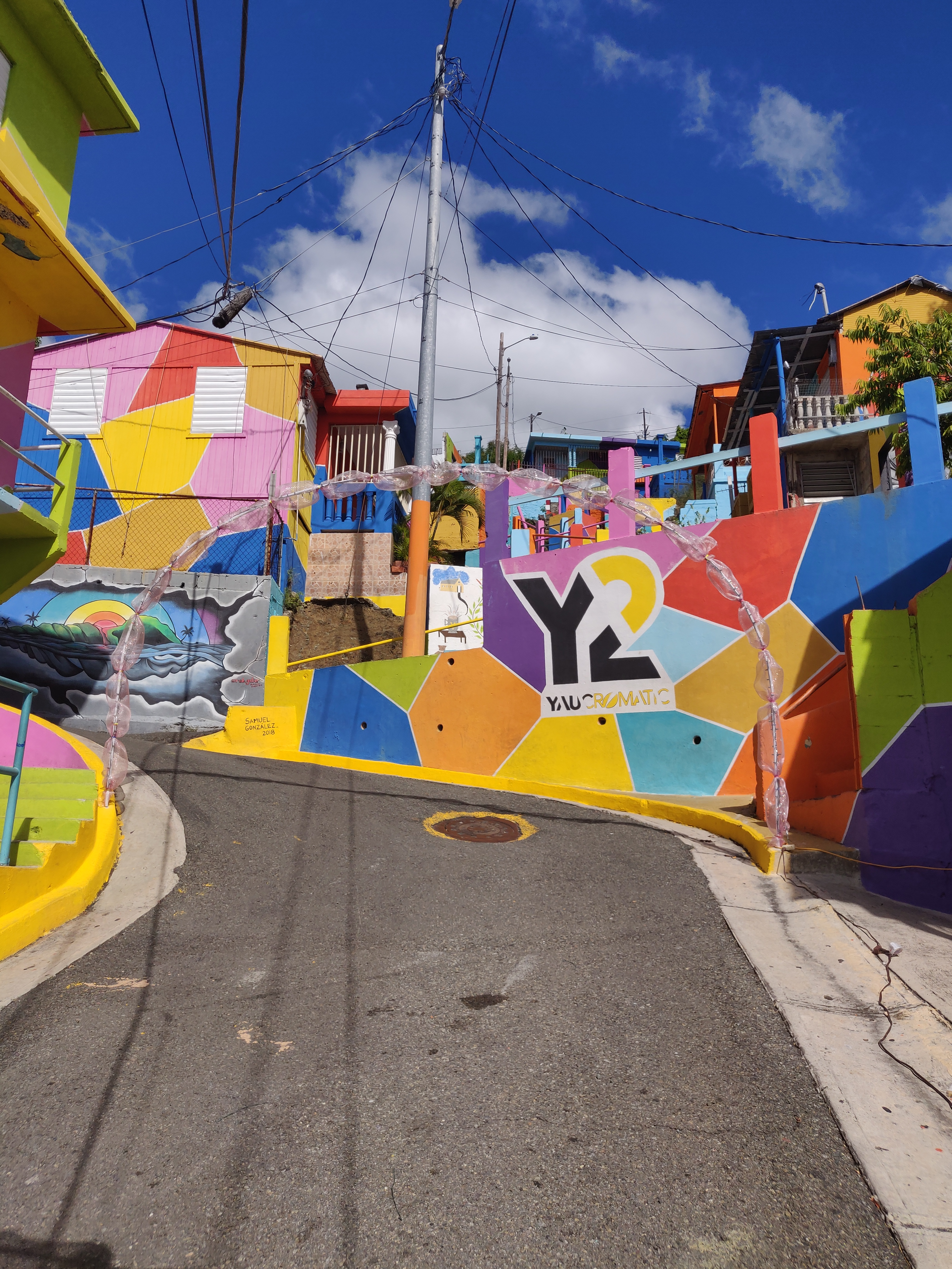 View of the colorful houses painted by Yaucromatic project in Yauco, Puerto Rico